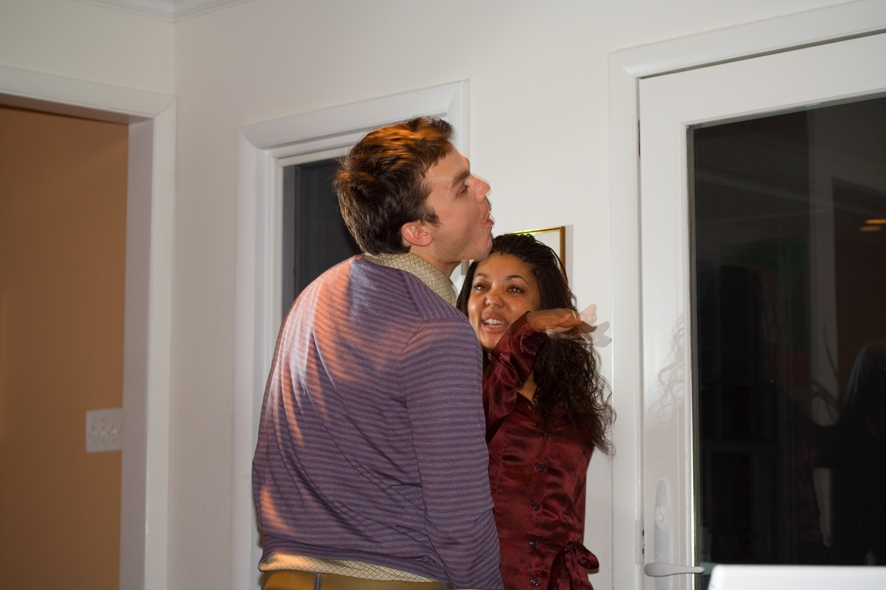 A woman slaps a man on this face.